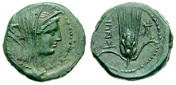 Campania, Capua. Circa 216-211 BC. Æ Semuncia (3.27 gm). Diademed and veiled bust of Iuno right; lotus tipped sceptre over shoulder KAPU (in Oscan) to left, grain ear; tripod-like object right . HN Italy 500; Sambon 1040; SNG ANS 219-221; BMC Italy pg. 83, 17; SNG Morcom 91; Weber 297. EF, glossy emerald green patina.